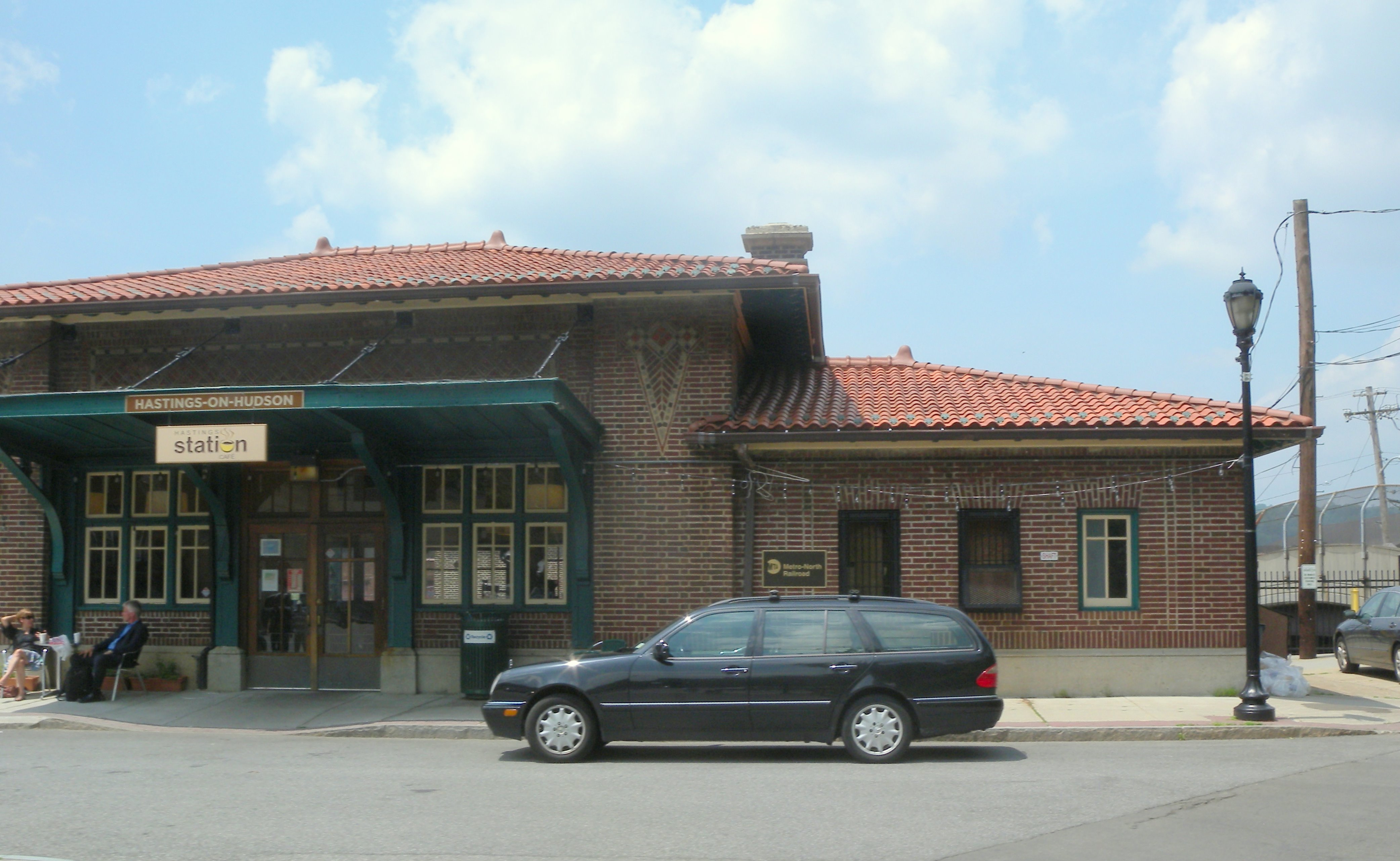 Looking west at Hastings on Hudson station on a mostly sunny midday.